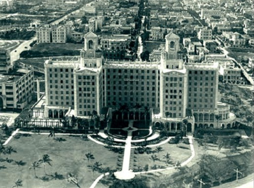 Hotel Nacional de Cuba. Areal View